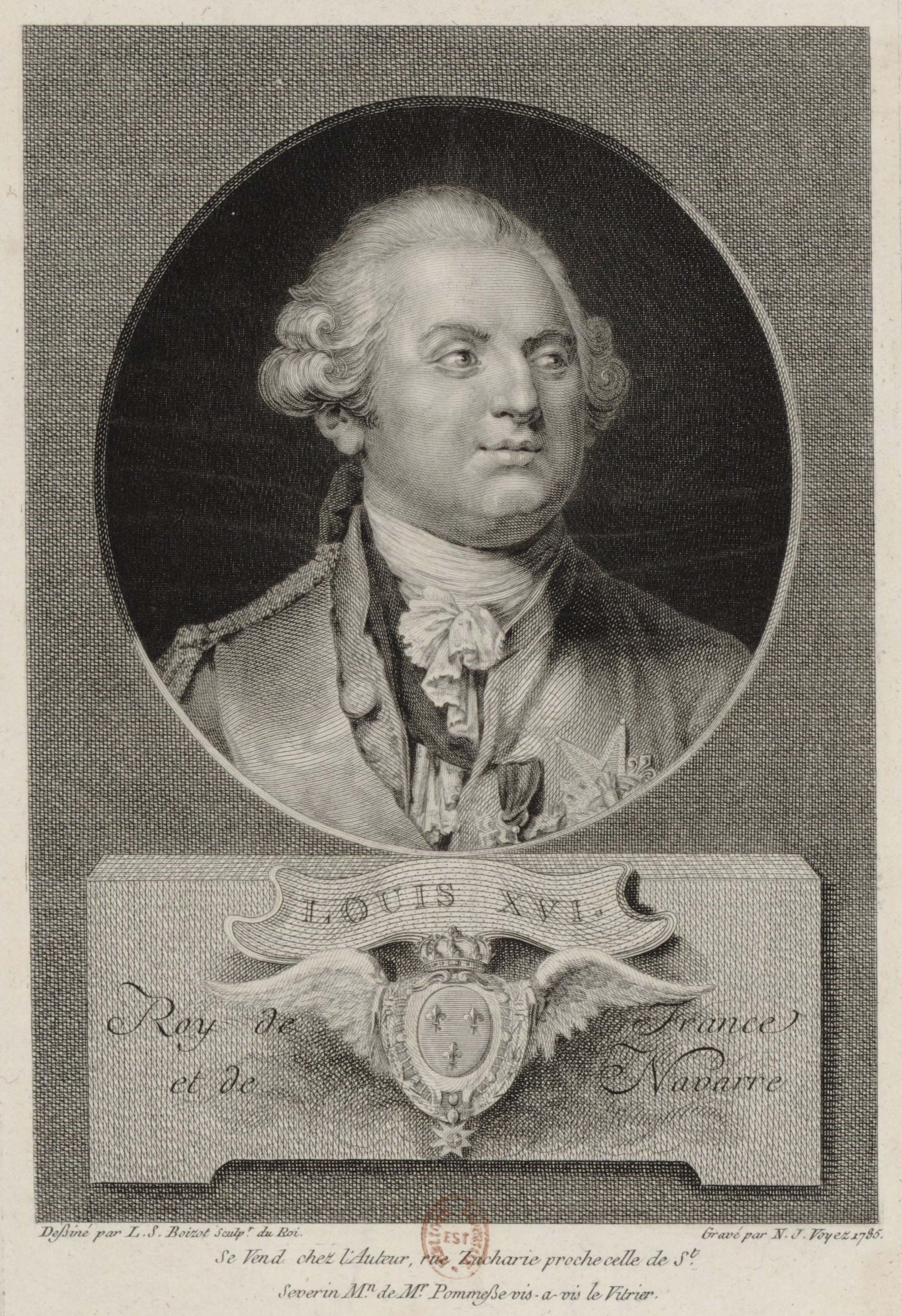 Portrait of Louis XVI of France